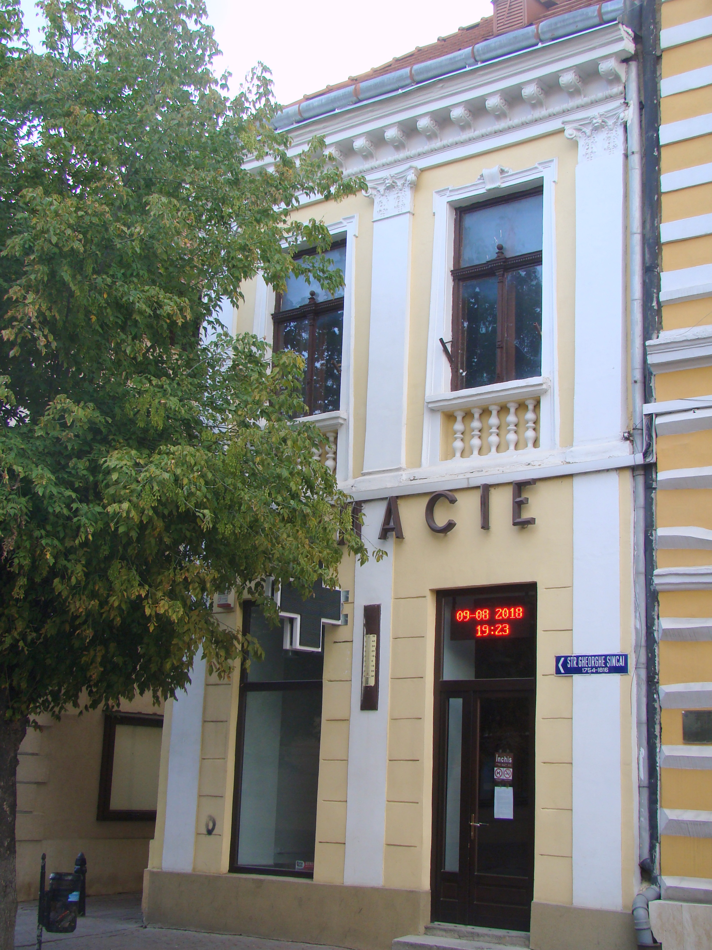 House, historic monument, in Bistrița, Piața Centrală 7